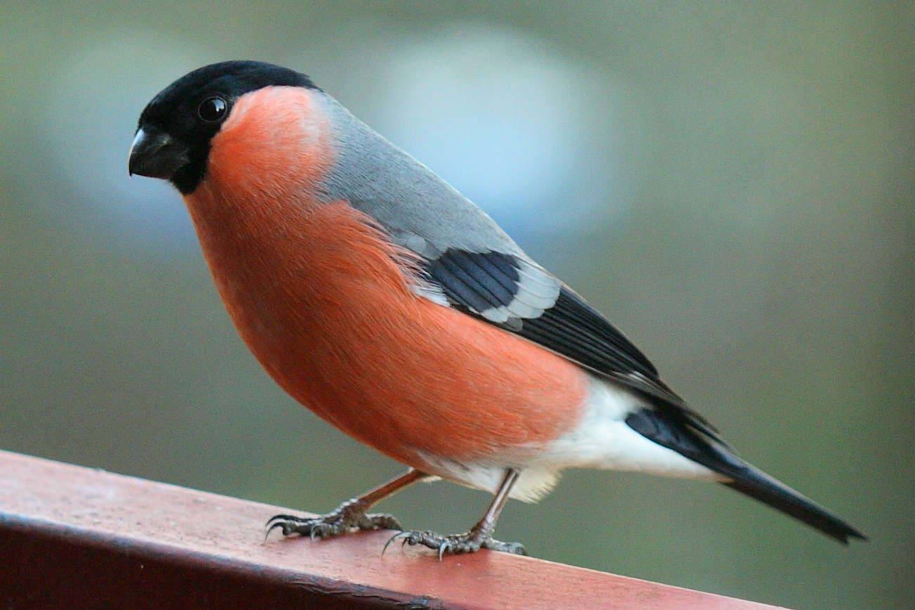 A male Bullfinch (also known as Common Bullfinch or Eurasian Bullfinch) in France.